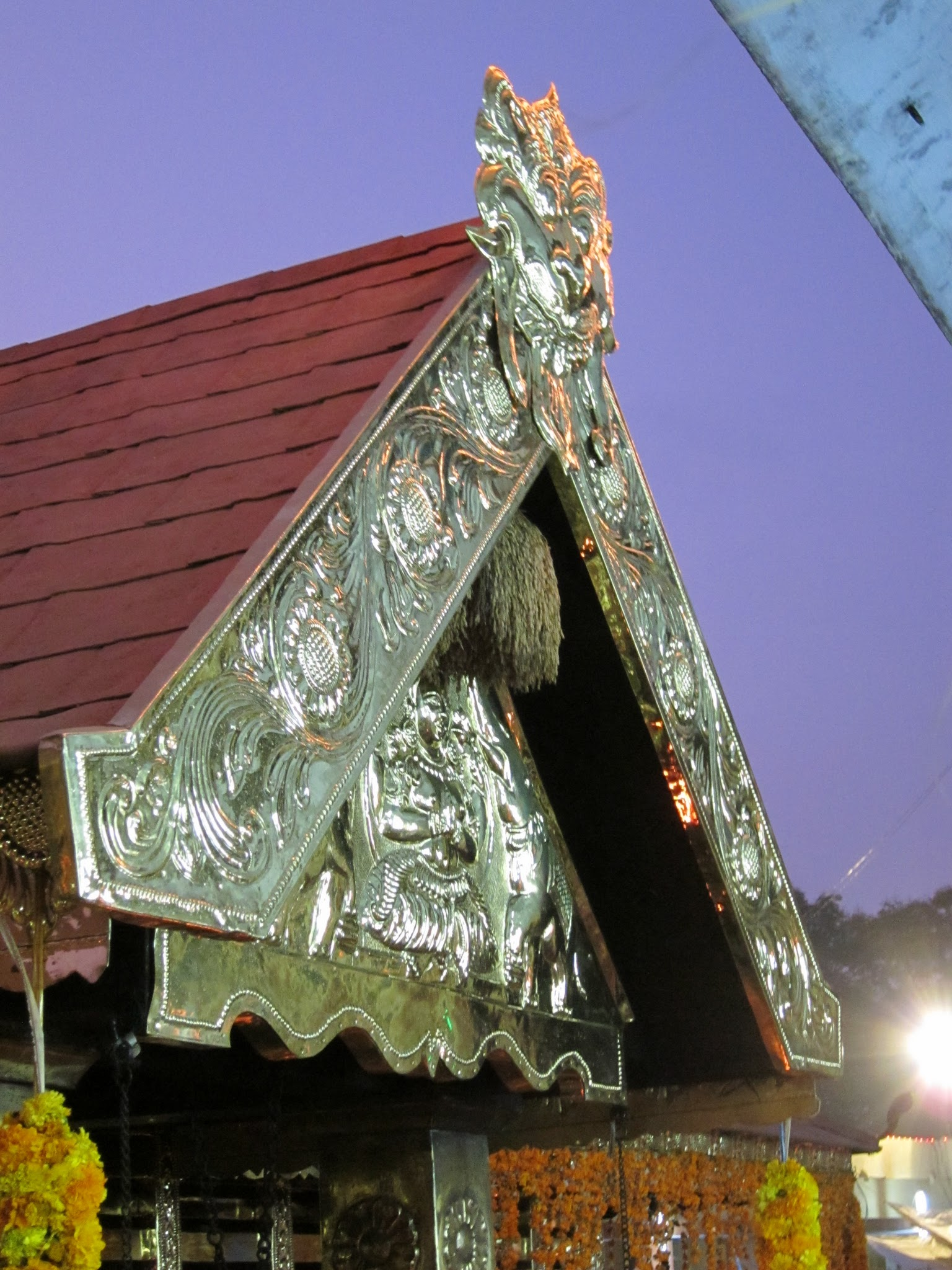 Front view of the Kottankulangara Devi Temple showing facade artwork.